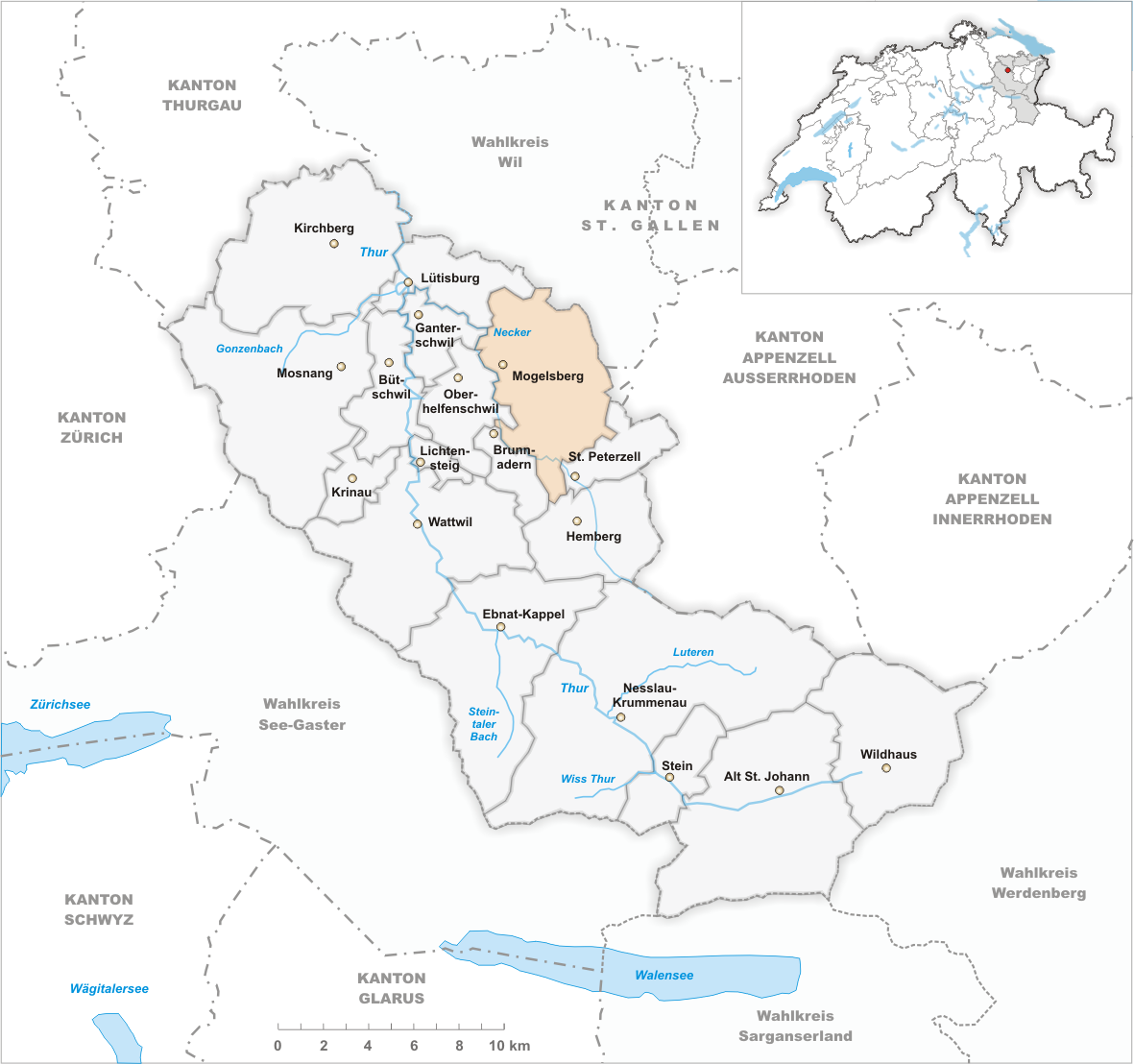 Municipality Mogelsberg